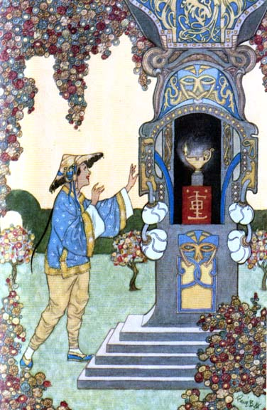 The stories for Arabian Nights Entertainments were published by "Longmans, Green, and Co., London, in 1898, by Andrew Lang (1844-1912). The Color Illustrations are by Rene Bull (1870-1946) the lager Black & white images are by Henry Justice Ford (1872-1941)